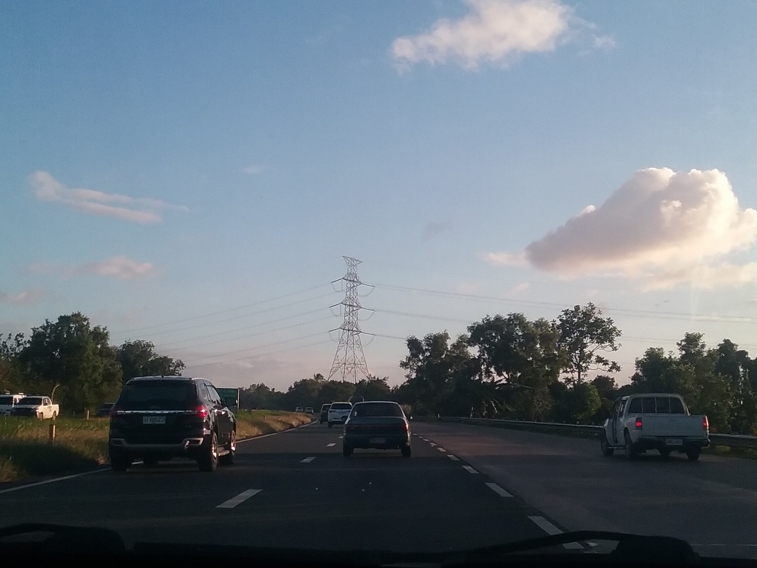 STAR Tollway on Tanauan, Batangas. A National Grid Corporation of the Philippines (NGCP) transmission tower supporting the Dasmariñas - Alaminos 500 kV Line can be seen in front.